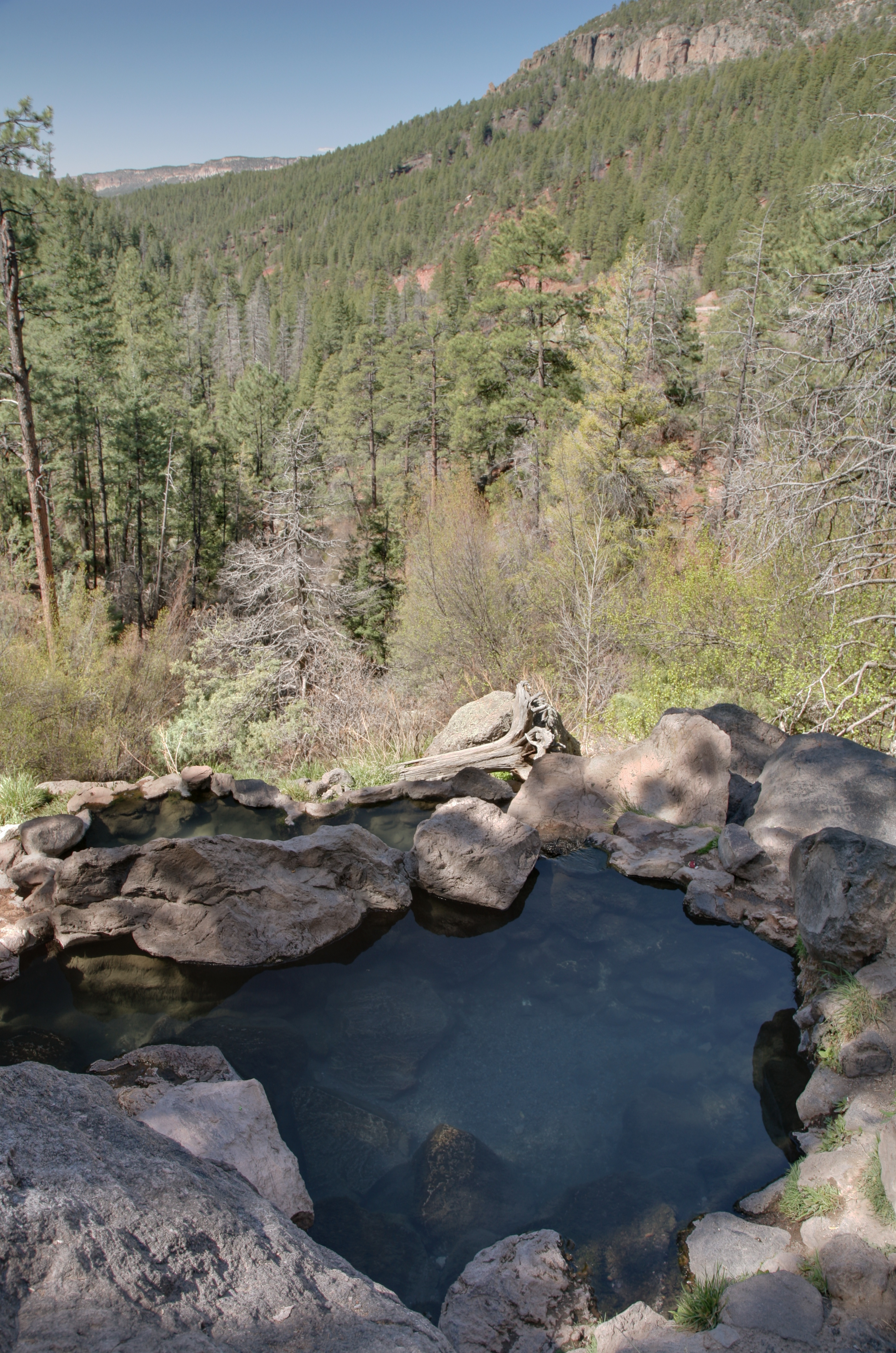 Spence hot spring in the Jemez Mountains in New Mexico